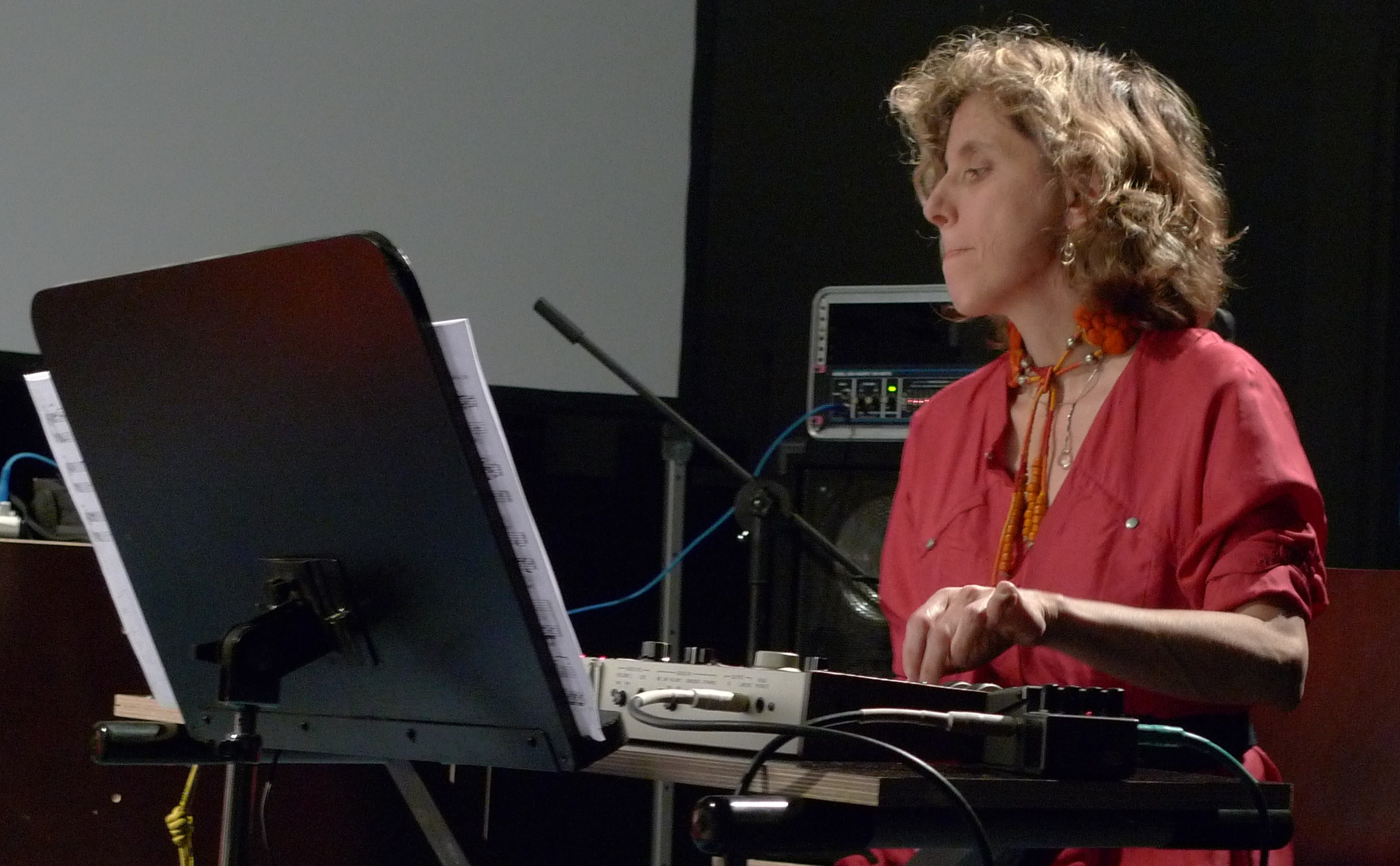 Zeena Parkins performing at the Music Unlimited 23 festival in Wels, Austria on 2009-11-08.